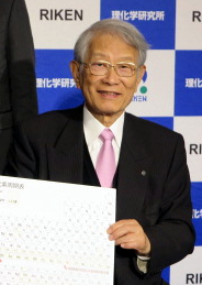 Kōsuke Morita, Professor of the Faculty of Science, Kyushu University, and Kōji Morimoto, Leader of the Superheavy Element Device Development Team, Research Group for Superheavy Element, Nishina Center for Accelerator-Based Science, Riken, attended the press conference with Hiroshi Matsumoto, President of the Riken, and Hideto En'yo, Director of Nishina Center for Accelerator-Based Science, Riken, in Fukuoka City, Fukuoka Prefecture on December 1, 2016.